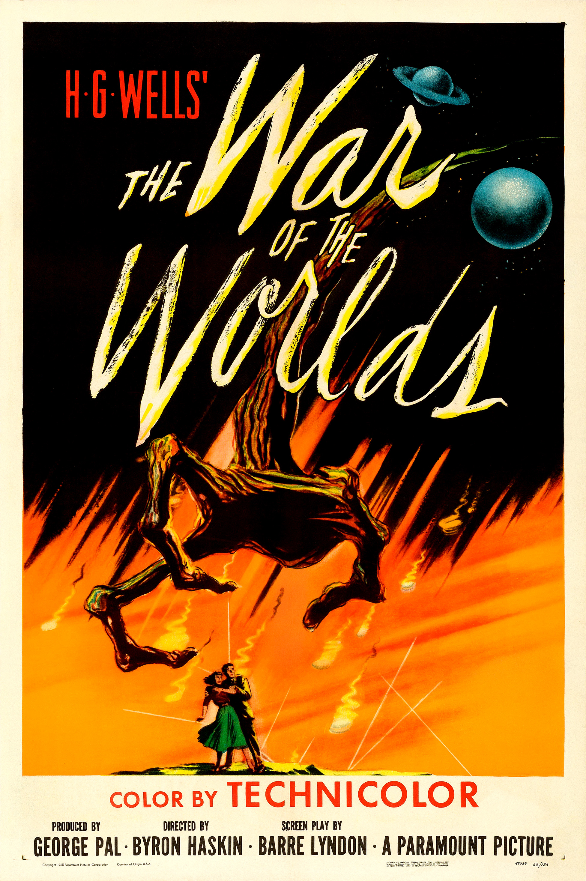 Theatrical release poster for the 1953 film The War of the Worlds, the first cinematic adaptation of H. G. Wells's 1897 novel of the same name.